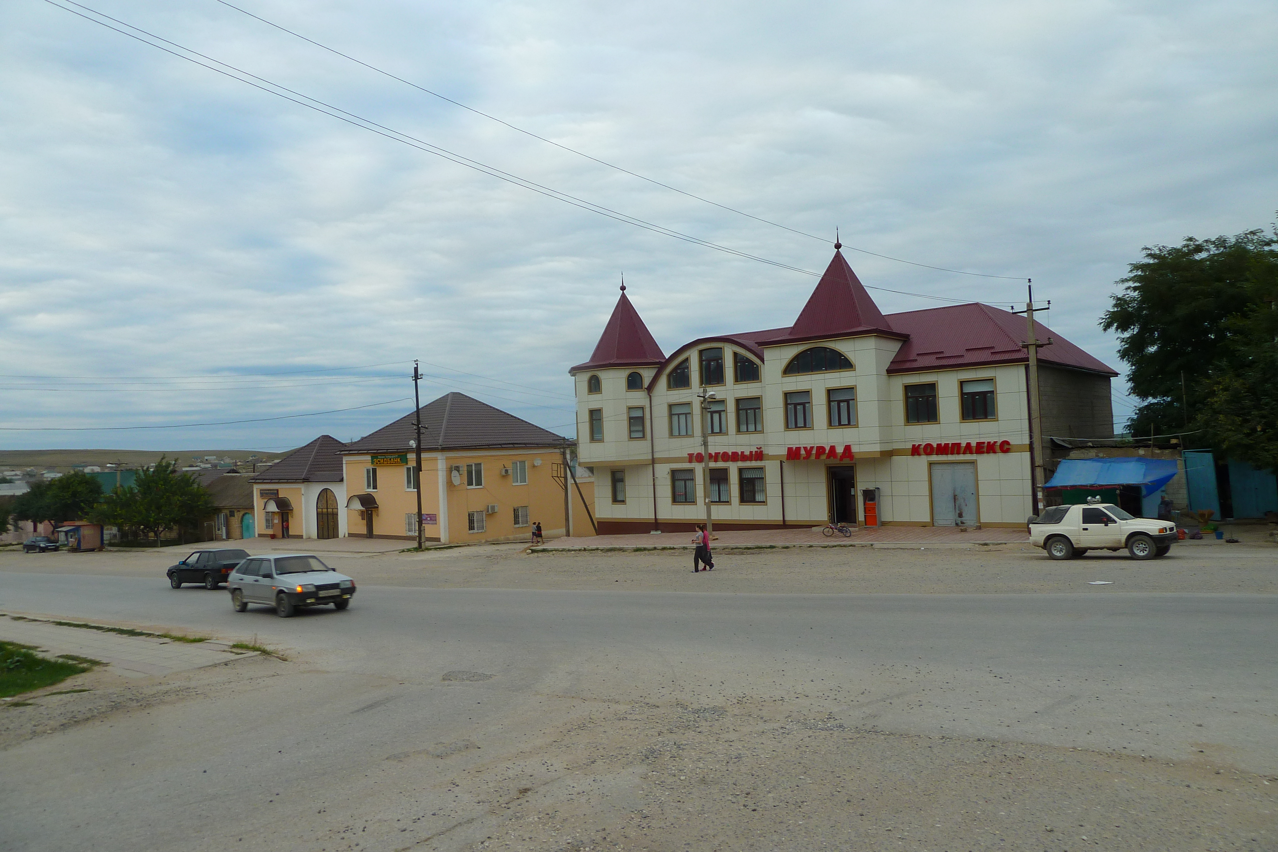 In Sergokala